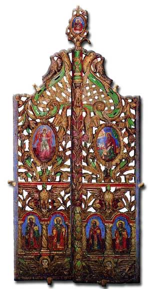 Vema doors (19th cent) from Holy Church of Agiow Nicolaos at Elaionas, image from the Ecclesiastical Museum, Serres, East Macedonia, Greece